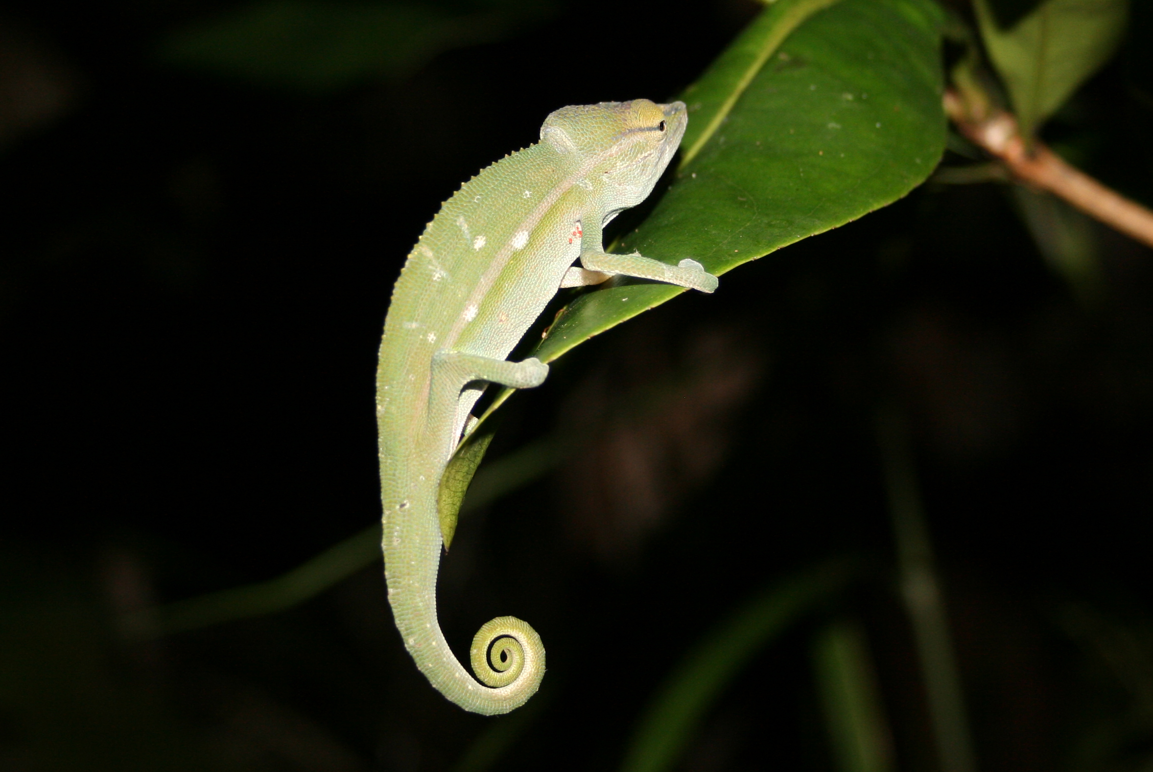 Perinet chameleon. This is a male (dorsal crest). Charles (talk) 14:54, 1 January 2019 (UTC)